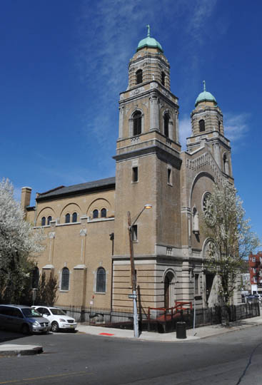 CONGREGATION ORGANIZED CIRCA 1836 BUT THE CHURCH WAS PROBABLY BUILT IN EARLY YEARS OF THE 20TH CENTURY BY JOSEPH BELLOMO IN SPANISH RENAISSANCE STYLE